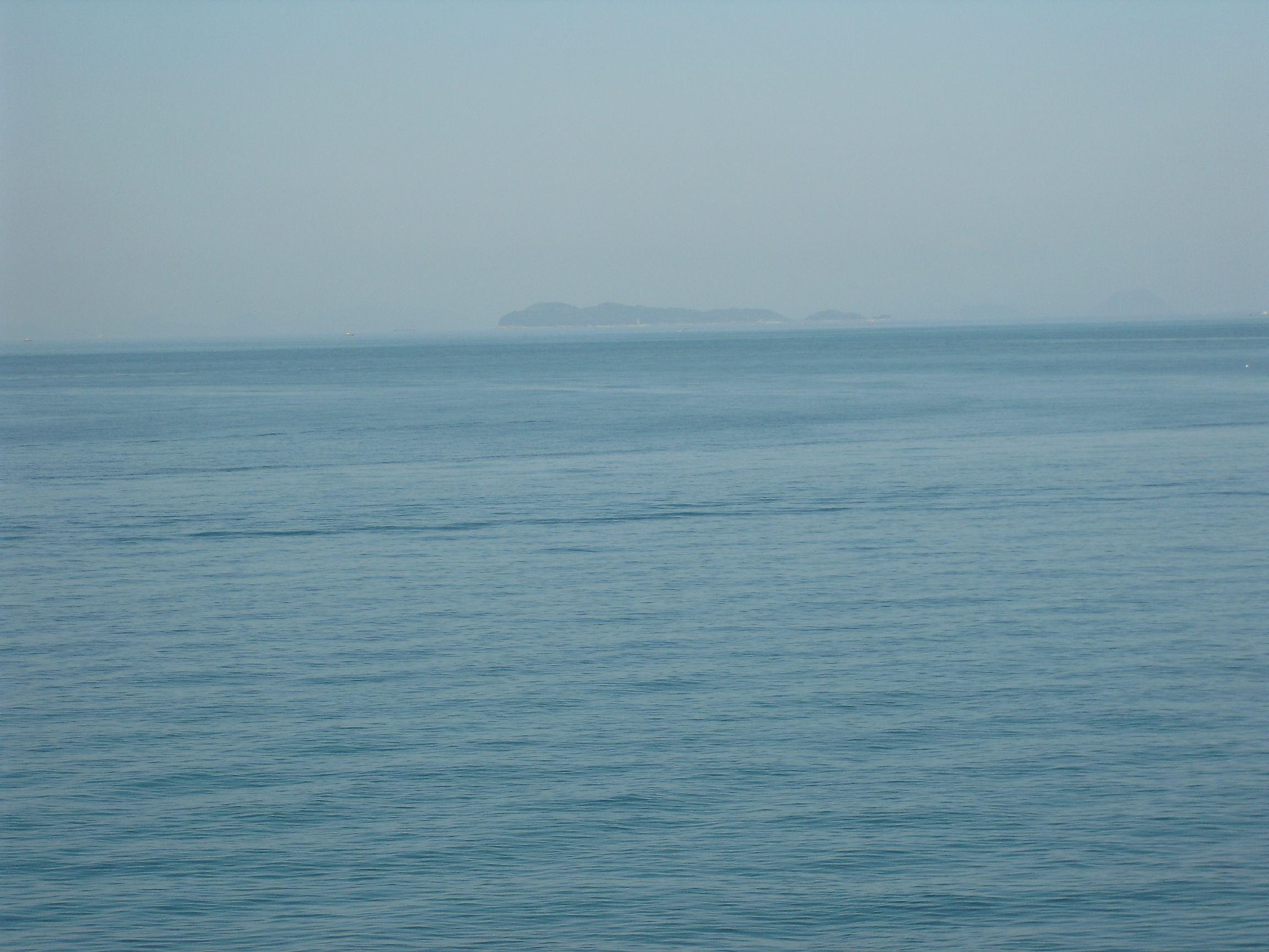 Iyo Aoshima